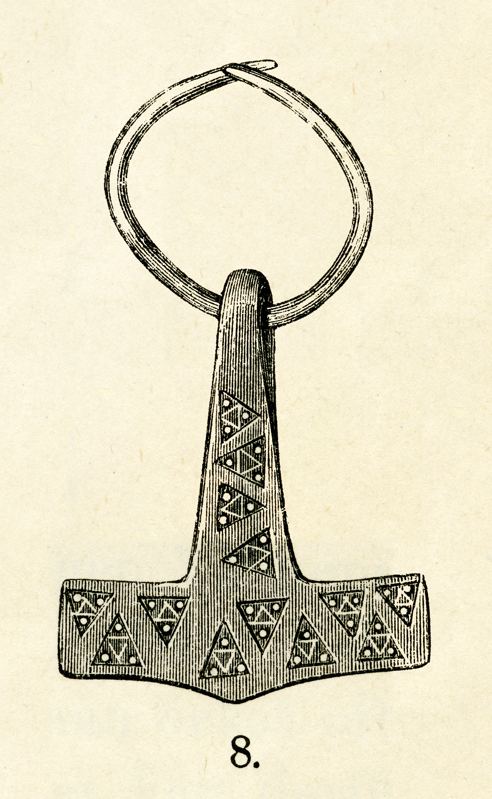 Thor's hammer of silver from Horda Gydingsgård, Moheda parish, Alvesta municipality, Kronoberg county, Småland, Sweden.